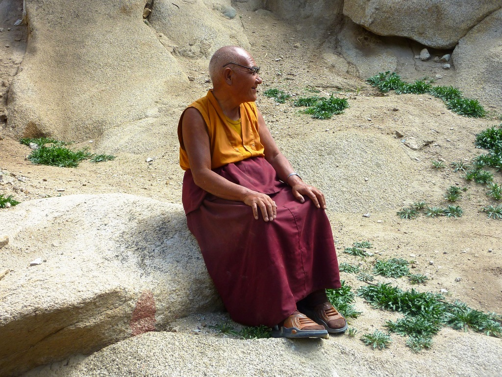 Photo taken on trip to Ladakh in 2010